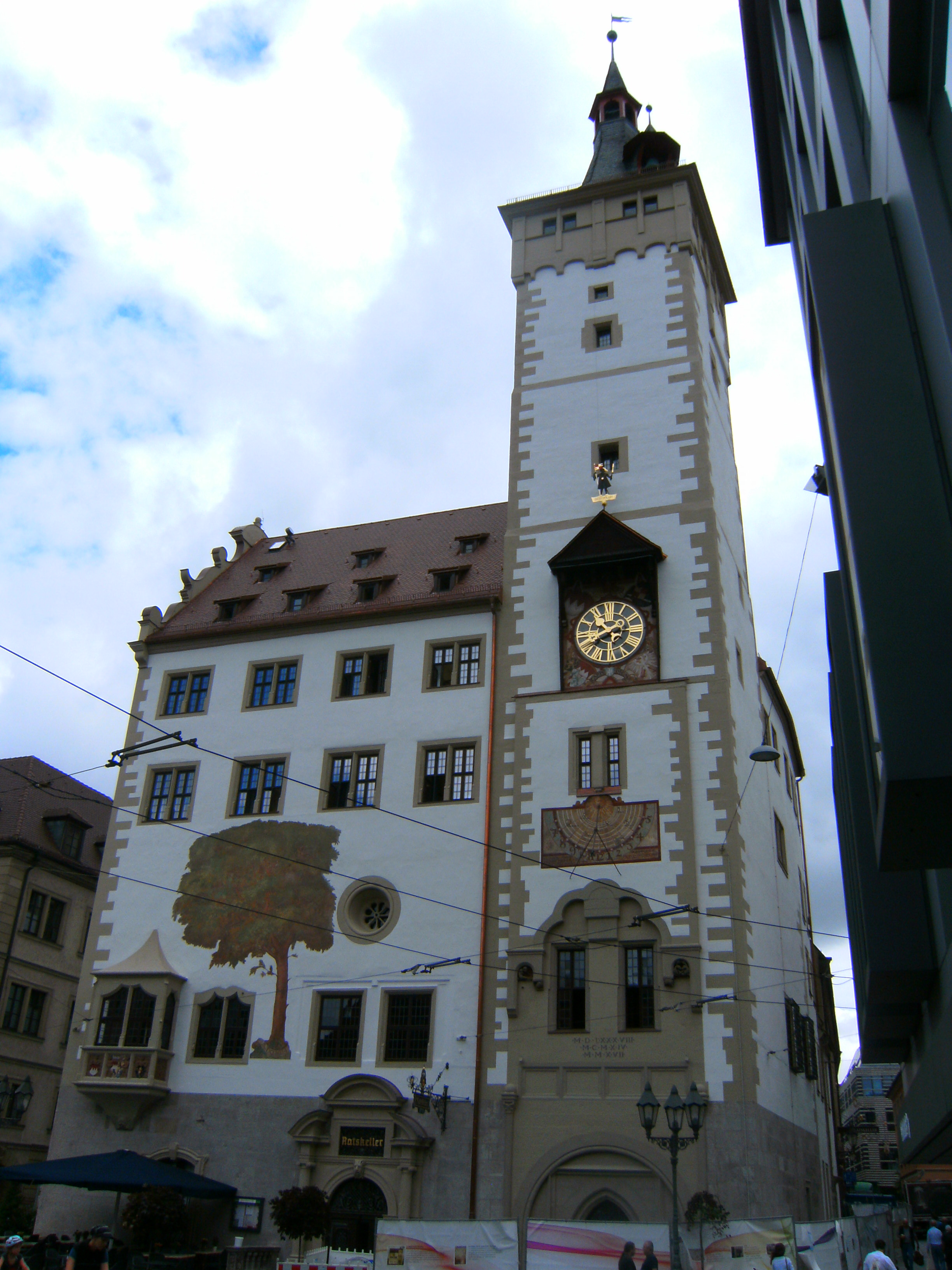 Würzburg, Germany, old townhall (Altes Rathaus) Grafeneckart: 2017